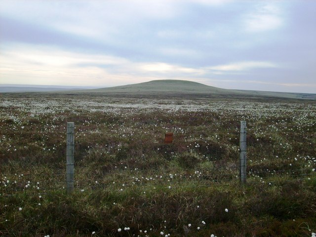 Meugher from West summit